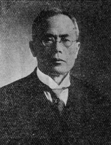 Jirō Shimoda.